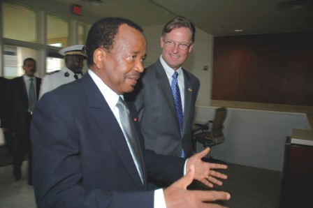 President Paul Biya and U.S. Ambassador R. Niels Marquardt at the inauguration of the new U.S. Embassy to Cameroon, 16 February 2006.